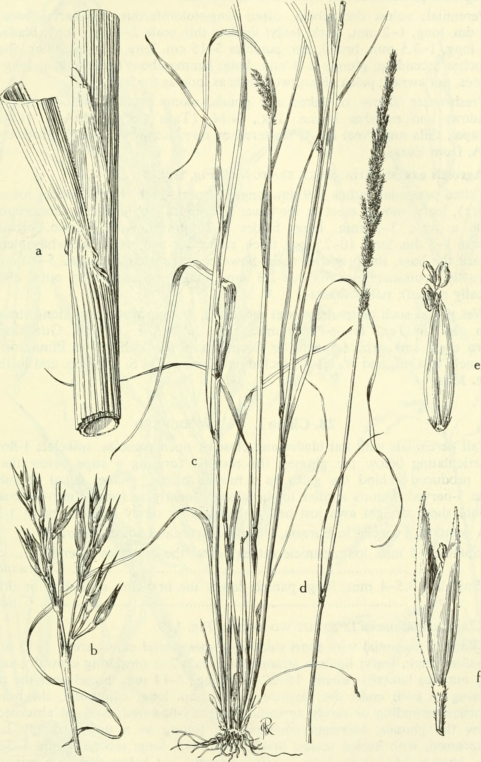 Title: Aquatic and wetland plants of southwestern United States Year: 1972 (1970s) Authors: Correll, Donovan Stewart, 1908-; Correll, Helen B Subjects: Aquatic plants -- Southwestern States; Wetland plants -- Southwestern States Publisher: [Washington Environmental Protection Agency; [For sale by the Supt. of Docs. , U. S. Govt. Print. Off. Text Appearing Before Image: ' Text Appearing After Image: Fig. 109: Agrostis exarata: a, leaf sheath, ligule and blade, X 5; b, spikelet in lower part of panicle, X 3; c, habit, showing the leafy culms and young close panicle, X %; d, upper part of culm, showing panicle, X %; e, floret, X 14; f, spikelet, the glumes each with a scabrous keel, X 14. (From Mason, Fig. 54).